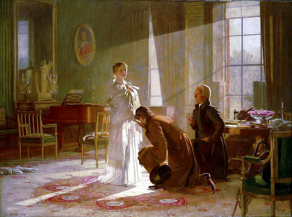 Queen Victoria receiving the news of her accession to the throne, 20 June 1837.